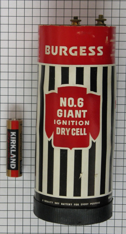 A "Number 6" size Burgess battery (date stamped 1959) with an AA battery and 7mm grid for scale (Battery was removed from a WWII US Navy battle lantern). Photographed with Canon A720 camera.